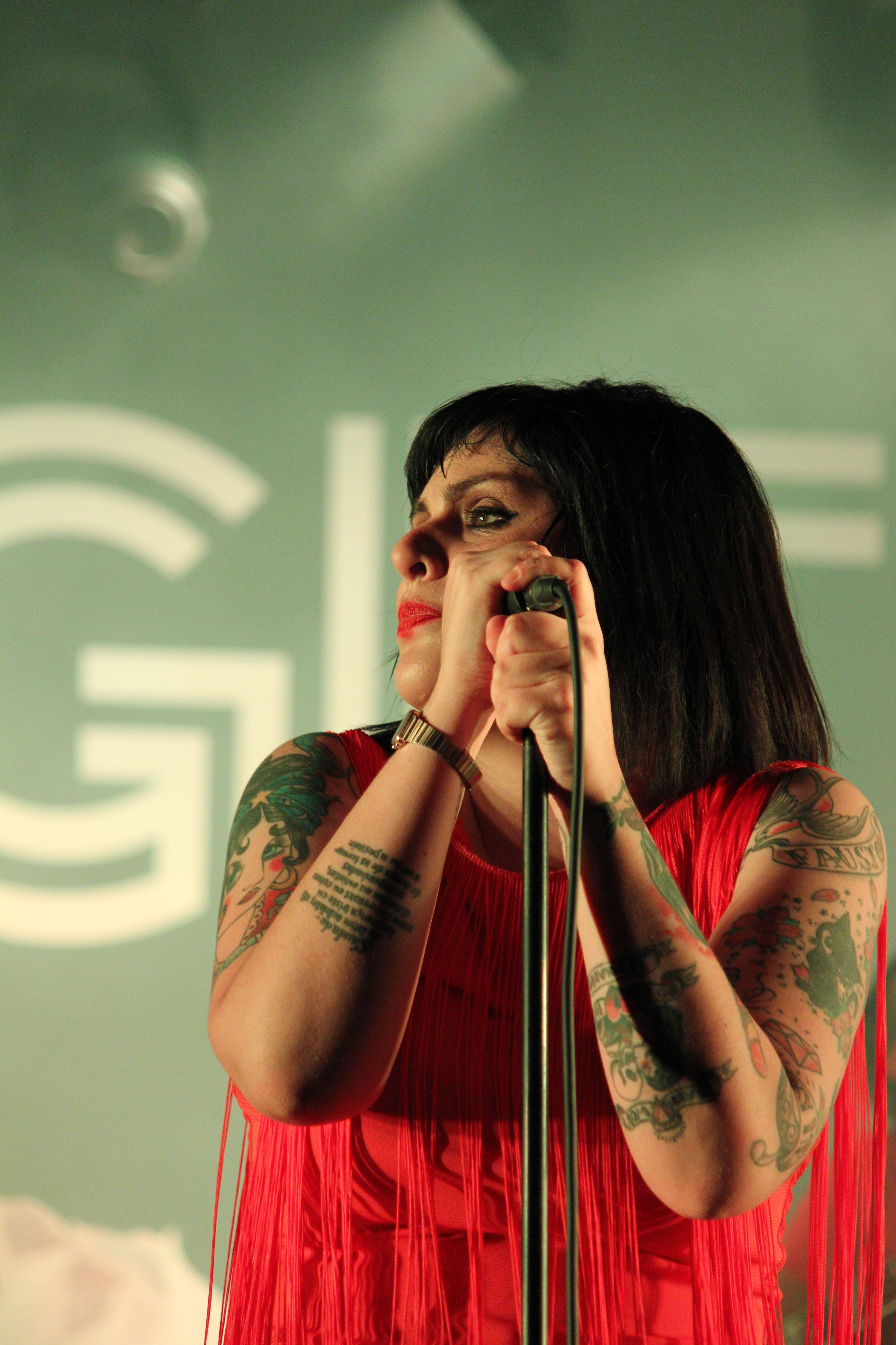 Sónia Tavares, vocalista da banda The Gift